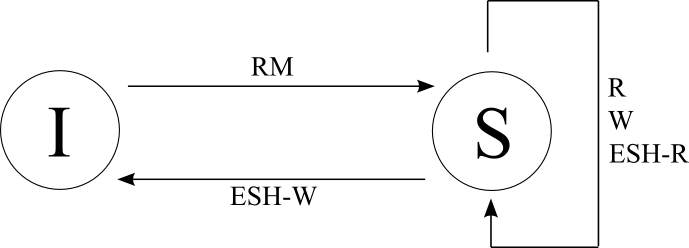 Write-through cache